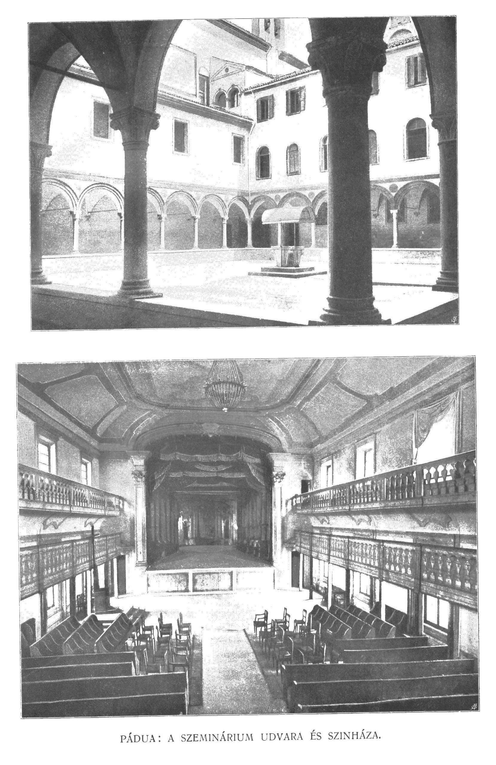 Seminary in Padua in Italy with courtyard and theater